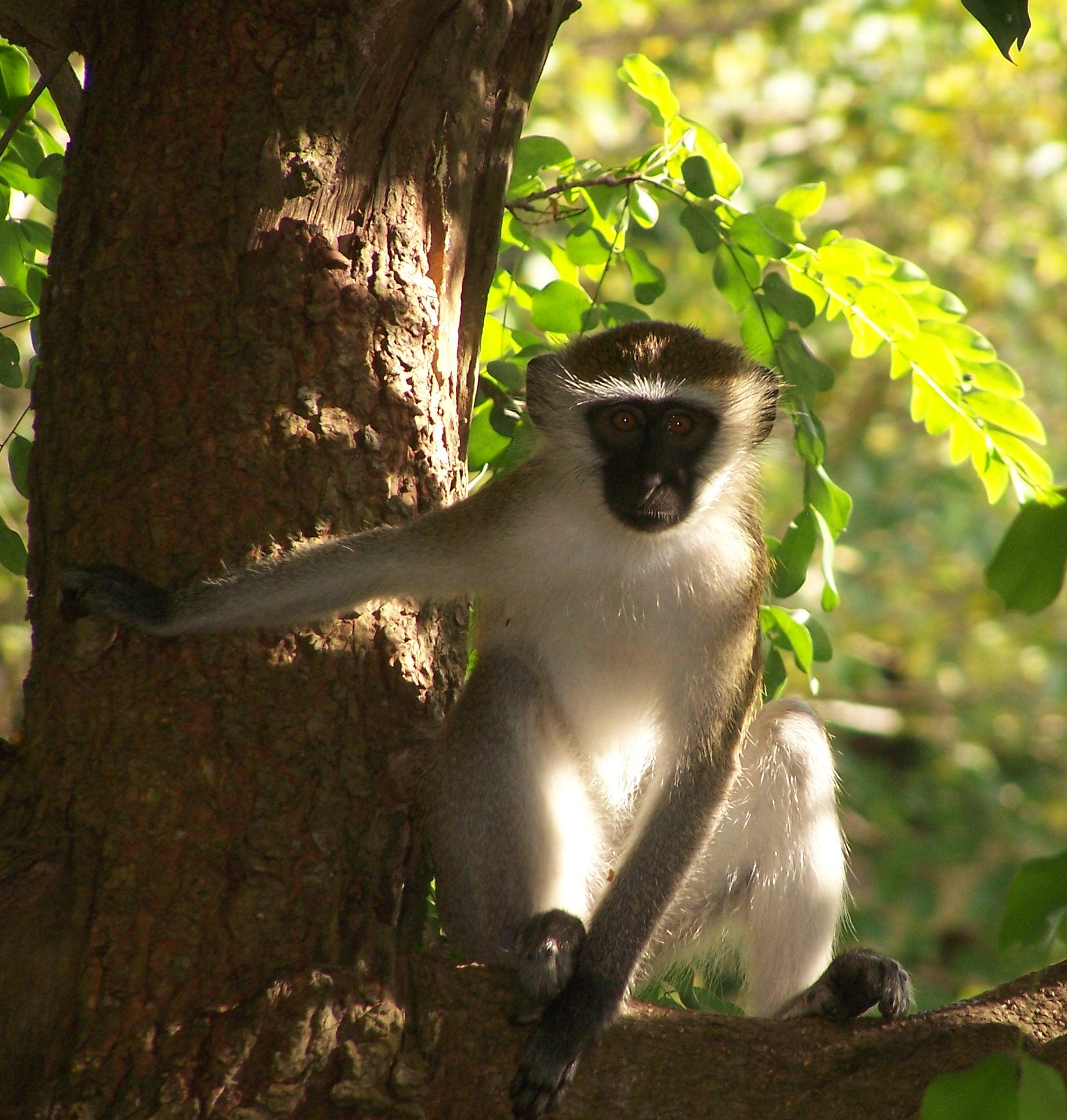 Photo of Vervet taken in Dar es Salaam, Tanzania by Alexander Landfair